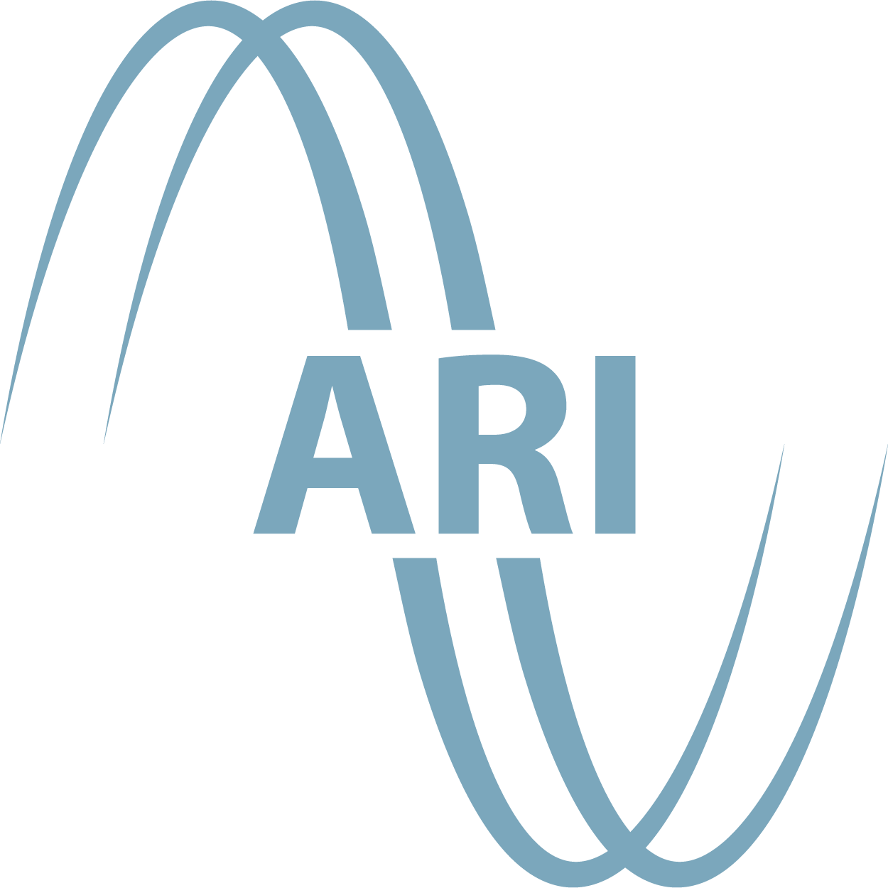 English Logo of the Acoustics Research Institute Vienna (ARI), Austrian Academy of Sciences (OeAW); new color (2016)